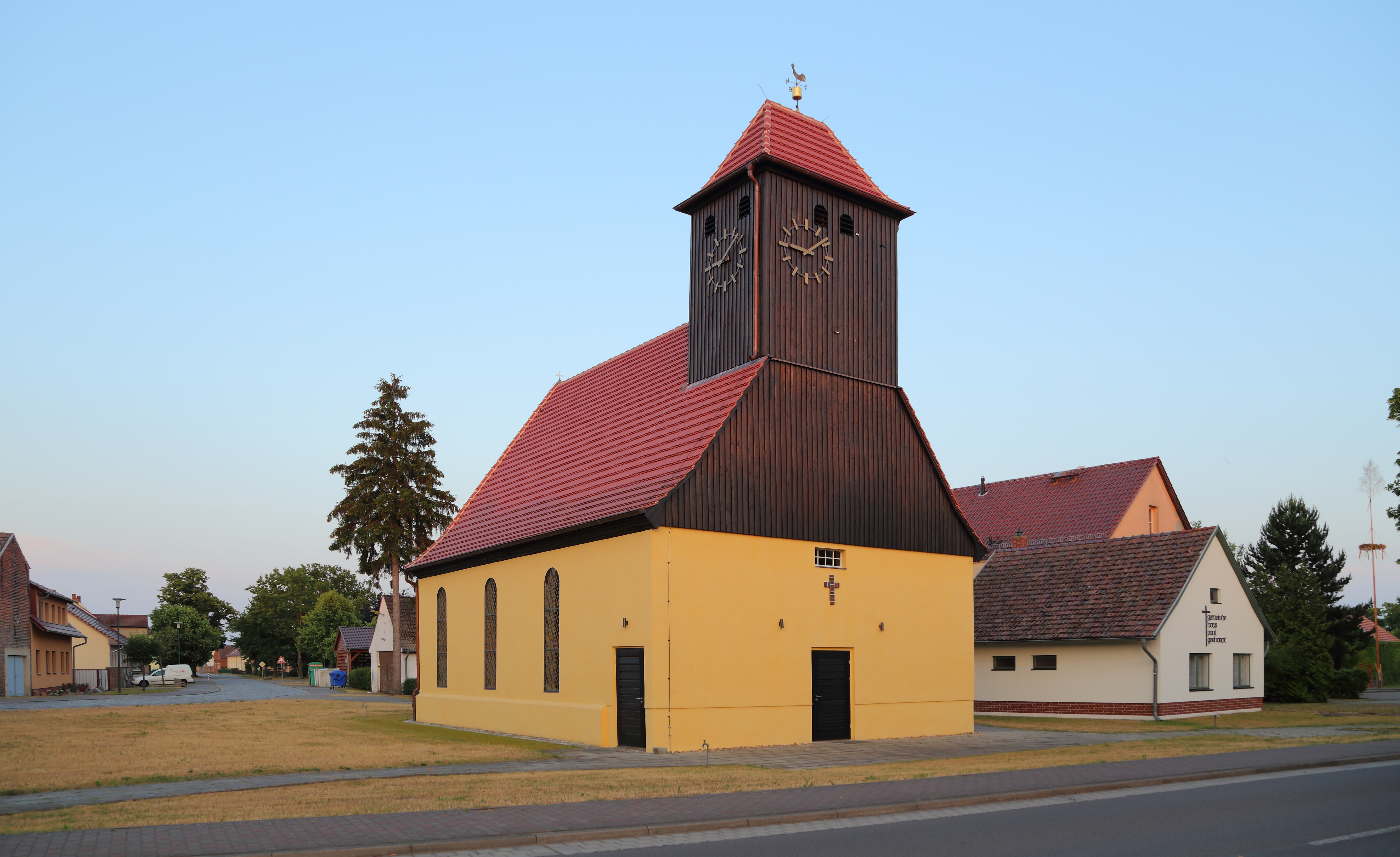 Protestant Village Church (Dorfkirche) of Schönwalde, a district of Schönwald, Landkreis Dahme-Spreewald, Brandenburg, Germany.